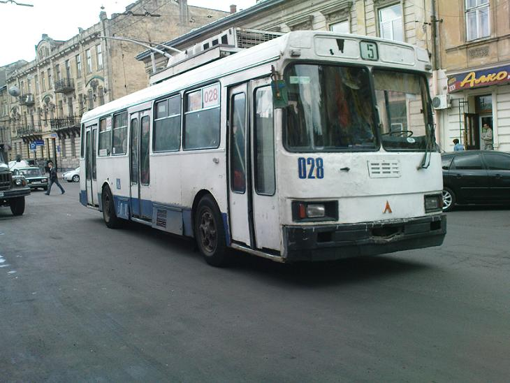 LAZ 52522 trolleybus (#028) in Lviv, Ukraine. Built 1996, ЛКП Львівелектротранс operator.